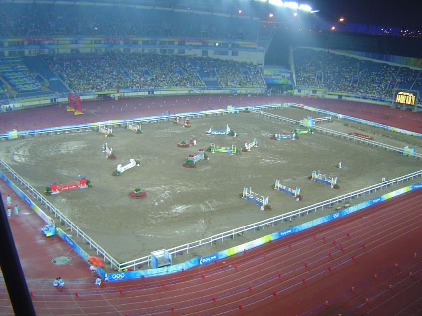 The stadium of the Olympic Sports Center prepared for the equestrian (inside) and the running (outside) of the Modern pentathlon at the 2008 Summer Olympics.